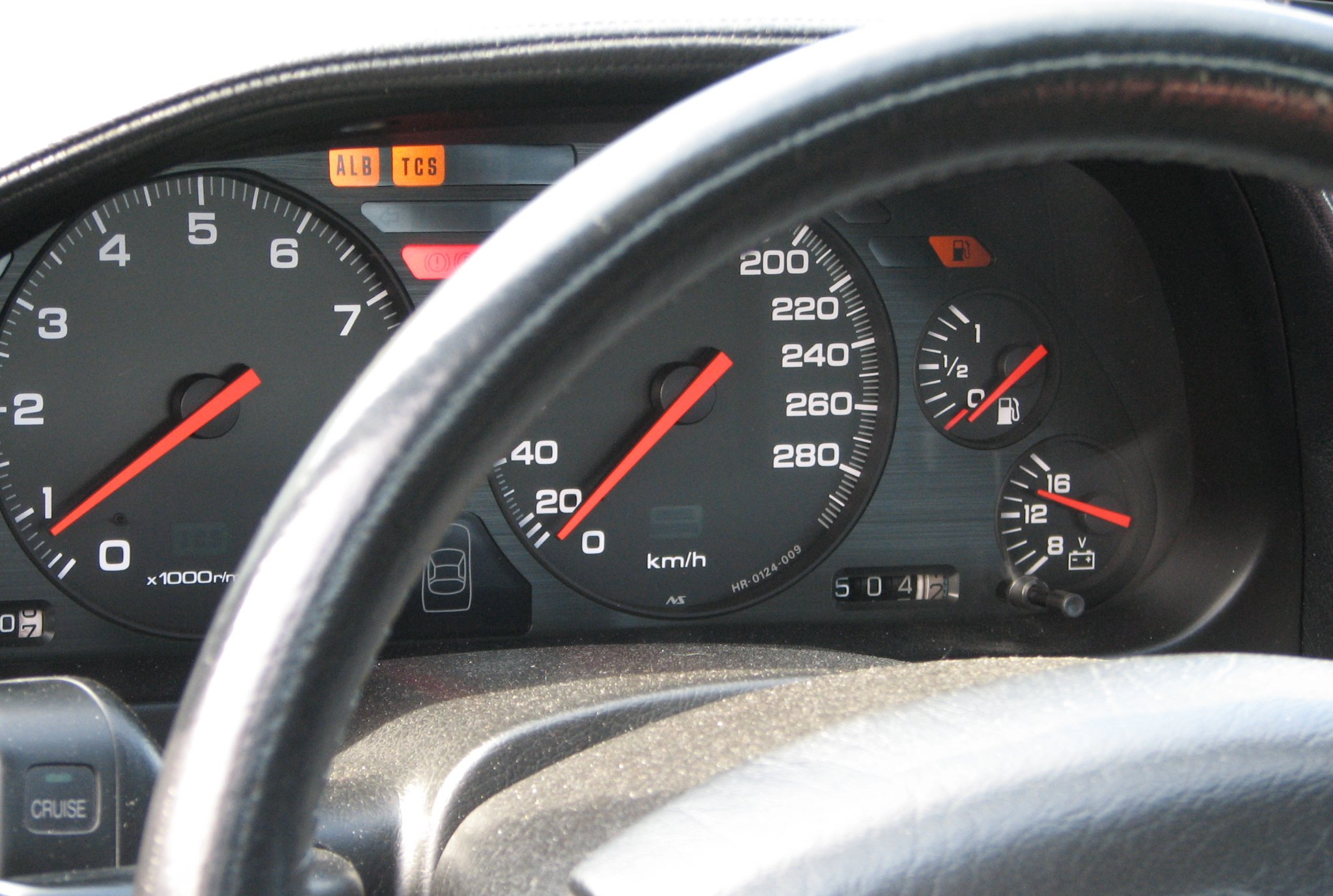 Dashboard of Honda NSX